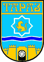 Seal of Taraz City (